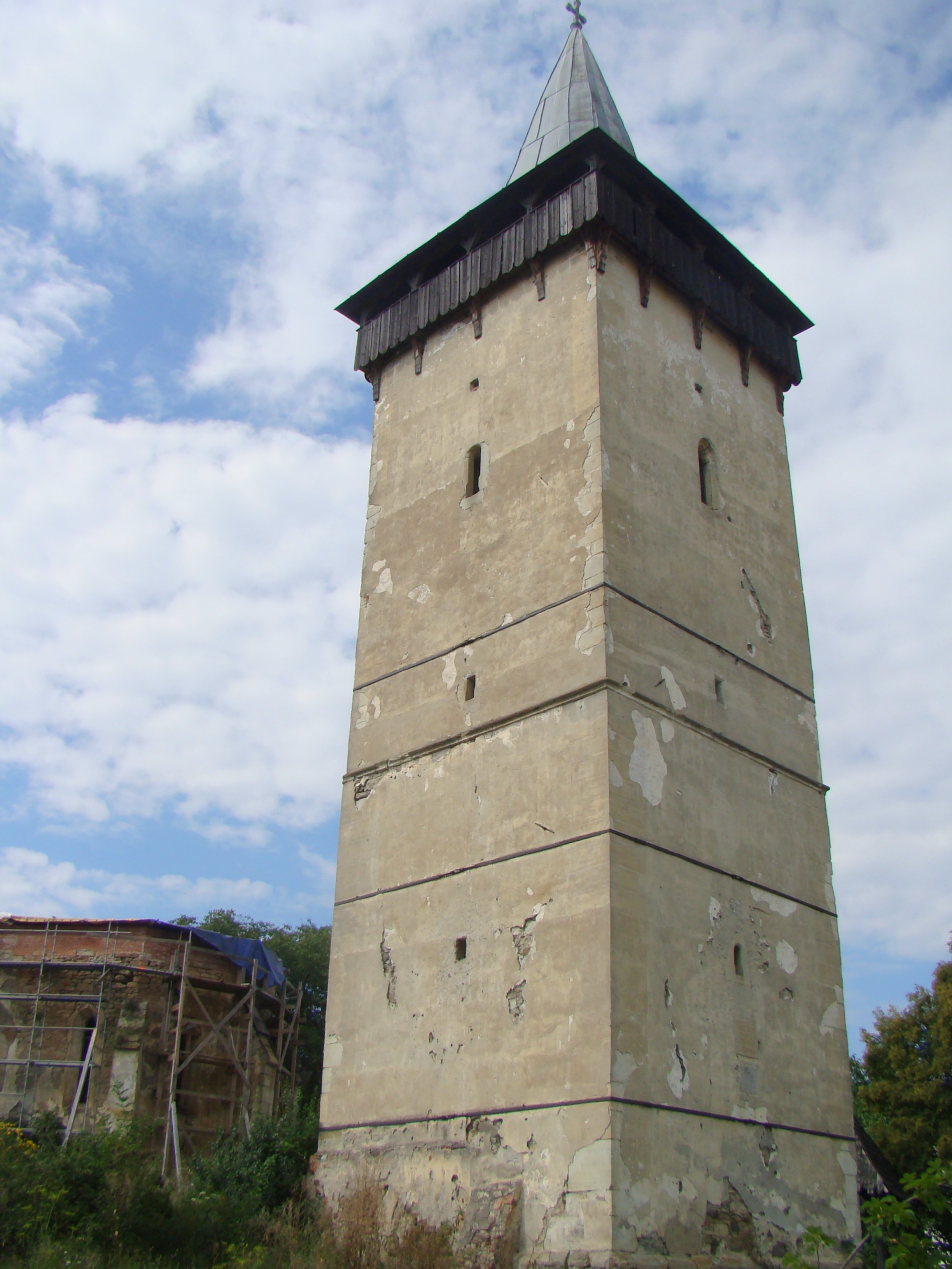 Lutheran church in Jelna, Bistrița-Năsăud county, Romania